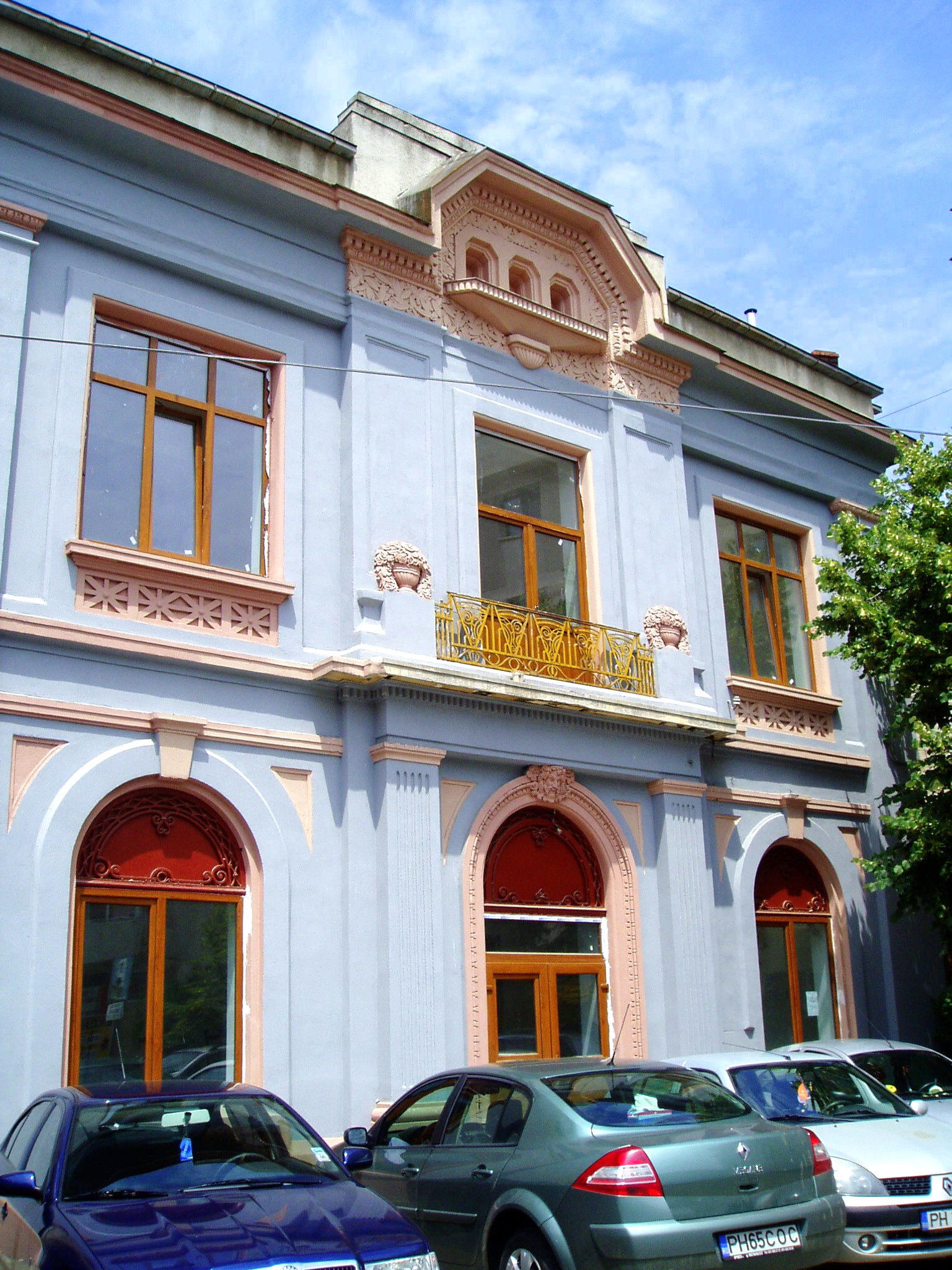 Scala Cinema Theater in Ploieşti. Architect Toma T. Socolescu. This building is located on strada T. Moşoiu in Ploieşti, Judetul Prahova, Romania. We are the only heirs and descendants of Toma T. Socolescu (died in 1960 in Bucharest) and therefore owner of all his intellectual rights.